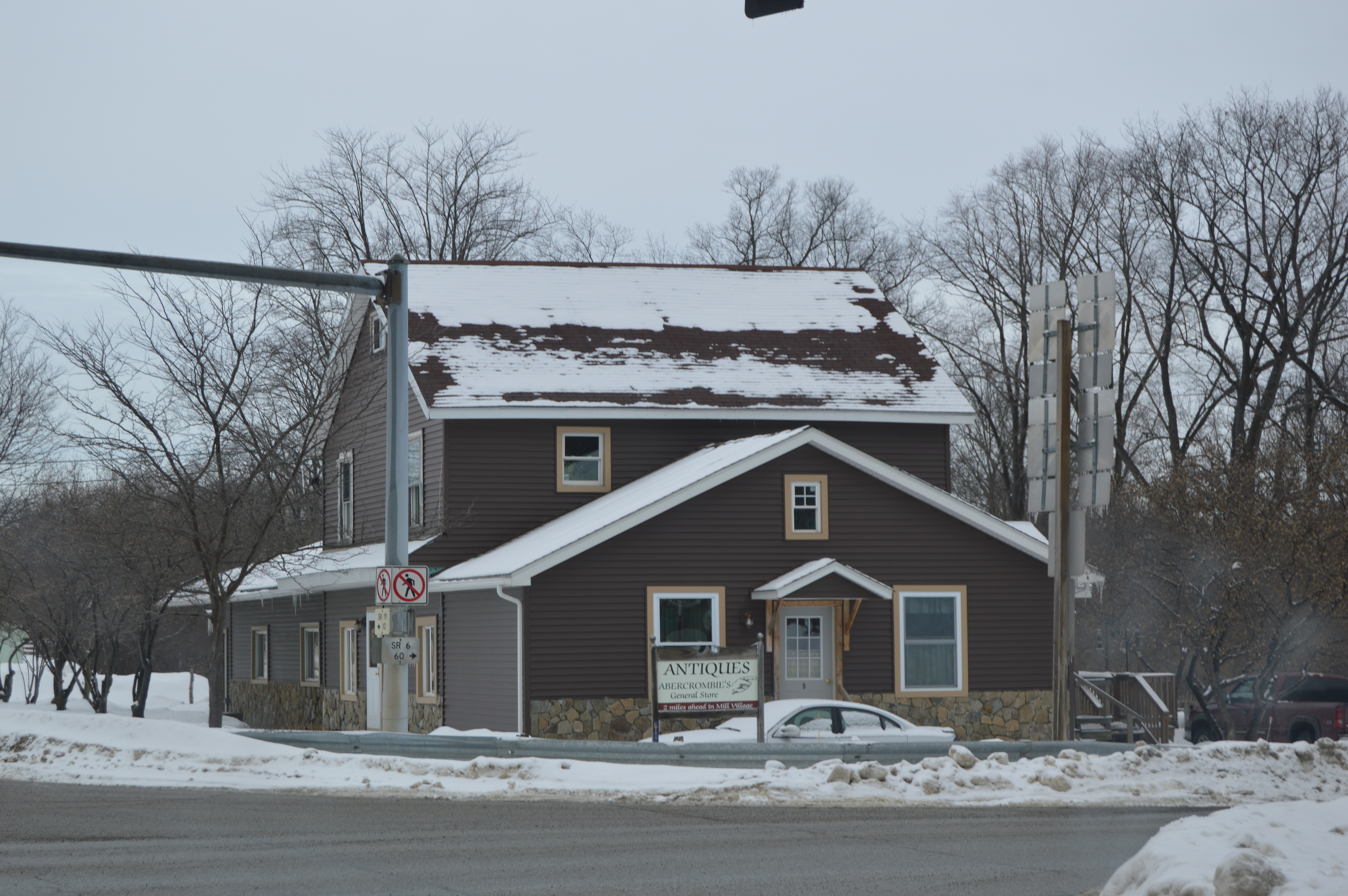 The restaurant on the northeastern corner of the junction of U.S. Routes 6 and 19 south of Erie in LeBoeuf Township, Erie County, Pennsylvania, United States. Note that the sign is for a building down the road; this is neither an antiques shop nor Abercrombie's General Store.